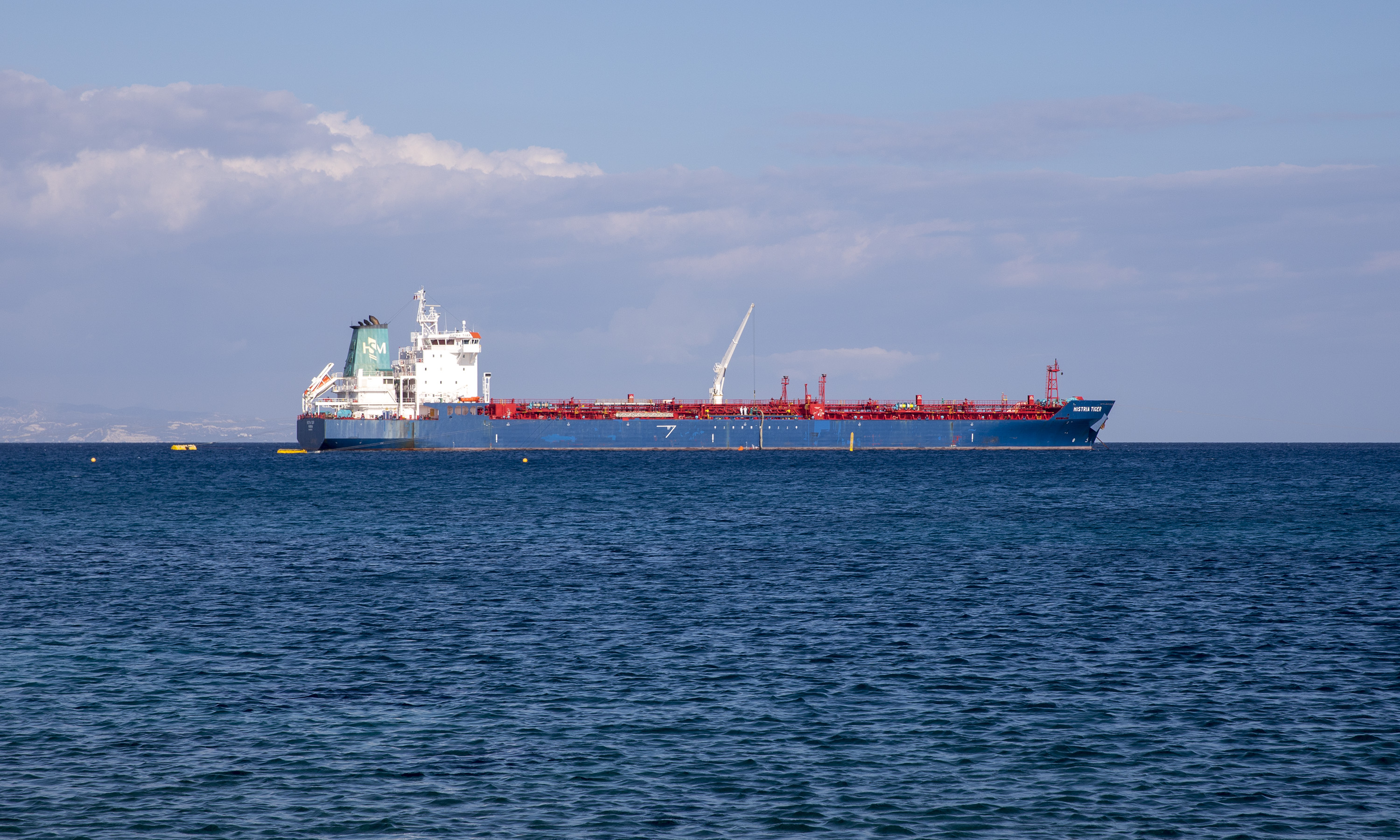 The oil tanker, Histria Tiger, in Cyprus about to depart for Barcelona